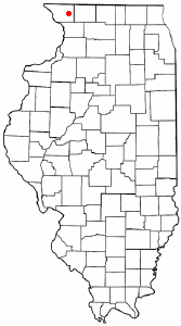 Category:Illinois city locator maps